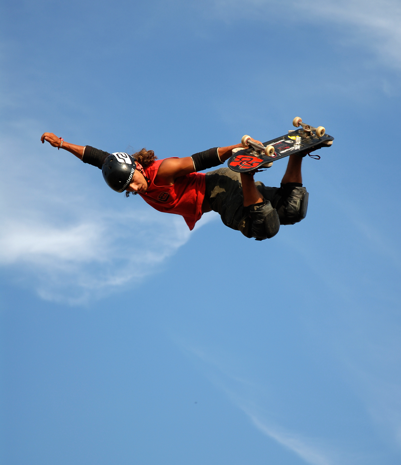 skateboard vert jump at the sprite urban games 2006 in clapham common, london.